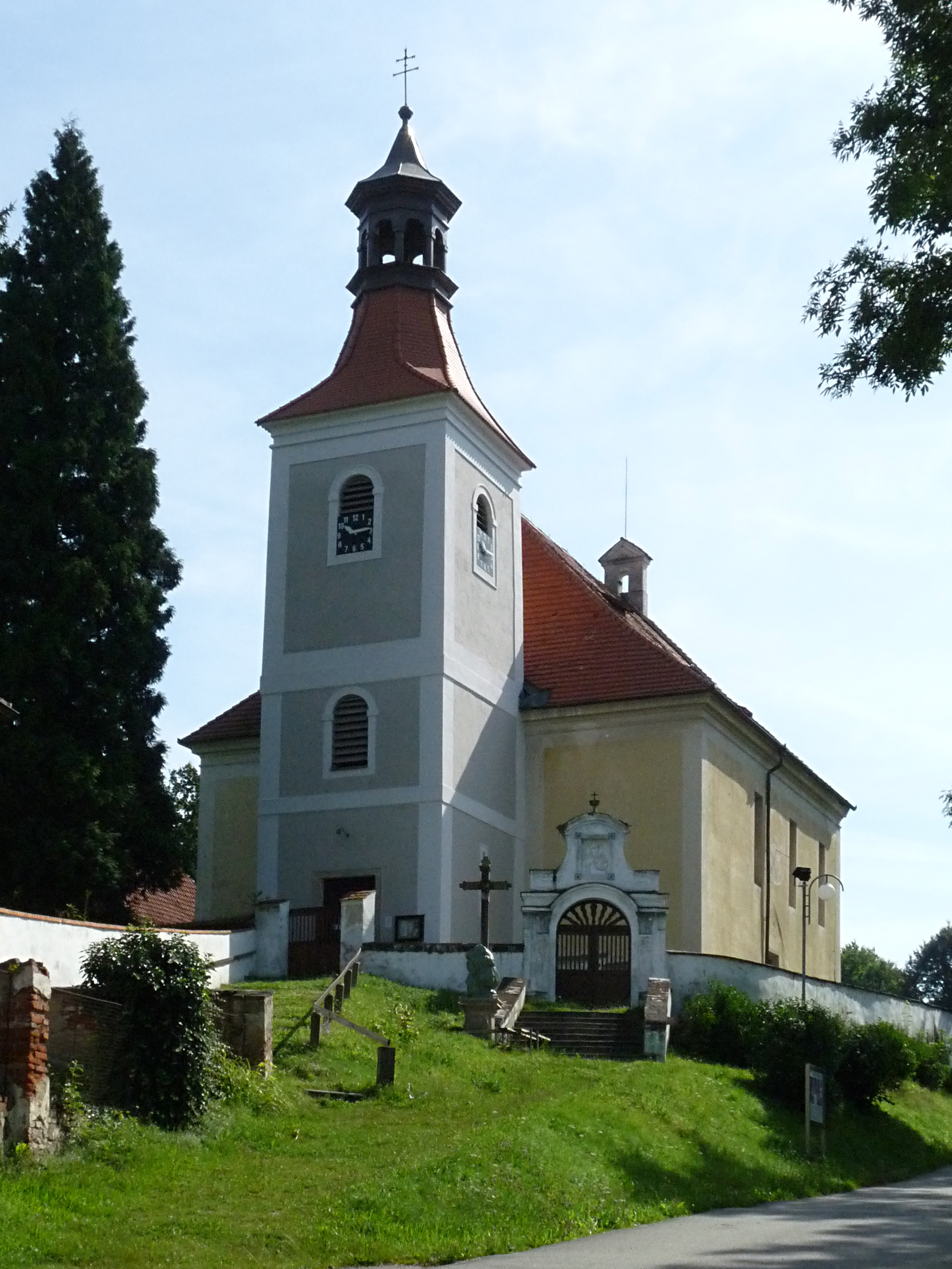 St Vincent church in Doudleby, České Budějovice district, Czech Republic